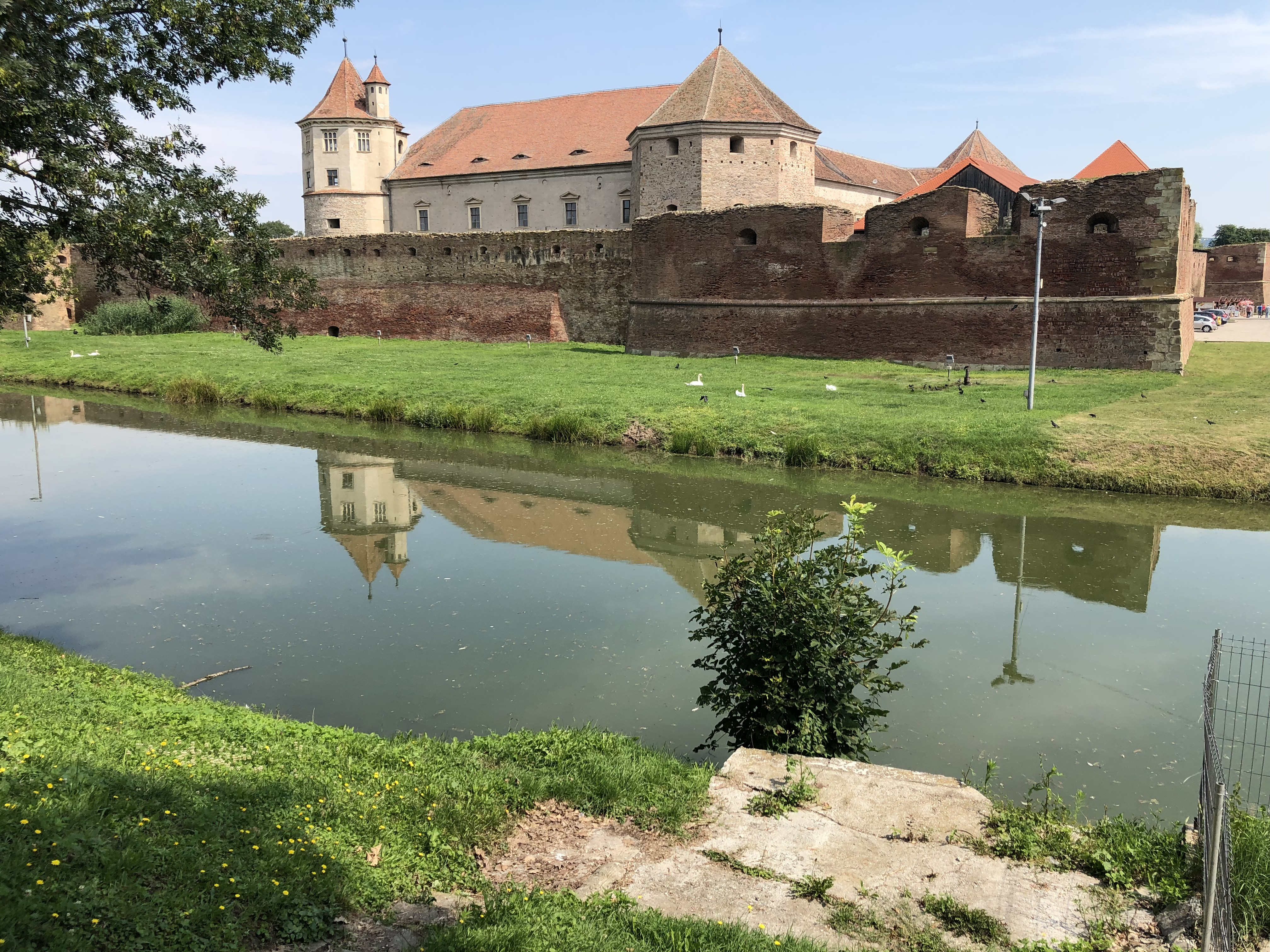 Făgăraș Fortress Historical Landmark